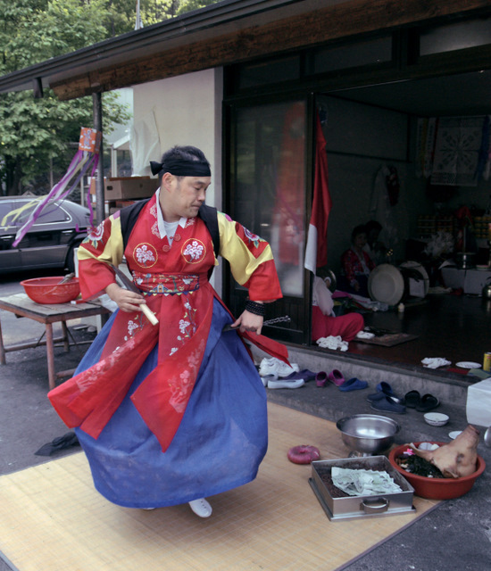 Photo by Nathaniel Paluga